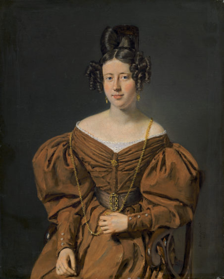 Ida Frederikke Broberg, wife of merchant, ship-owner and politician Christian August Broberg